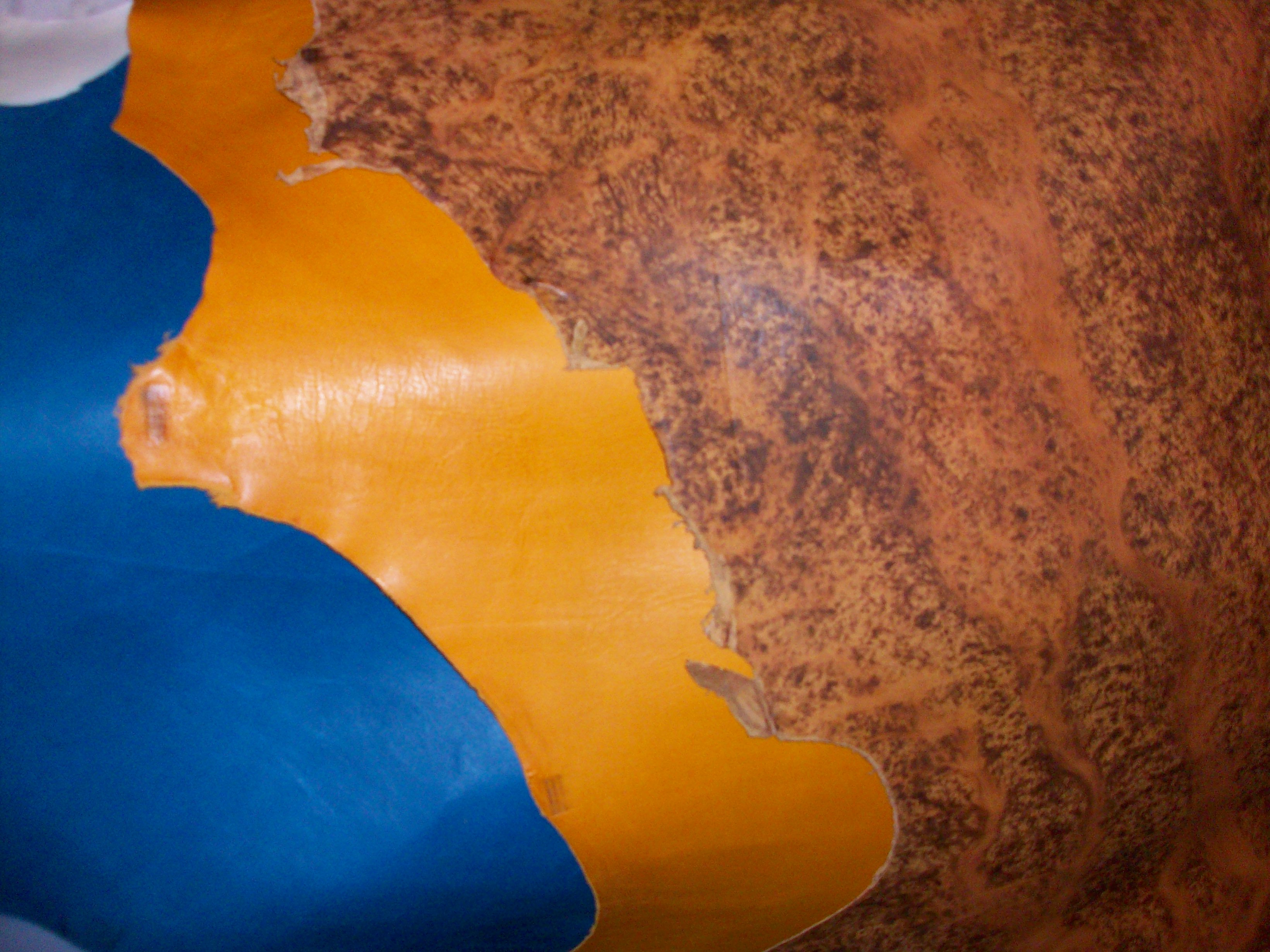 Sheep skin leather used in bookbinding